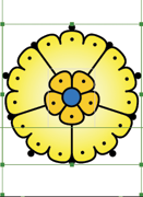 Tasmeem feature: Ring